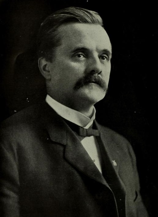 Portrait of George W. Norris